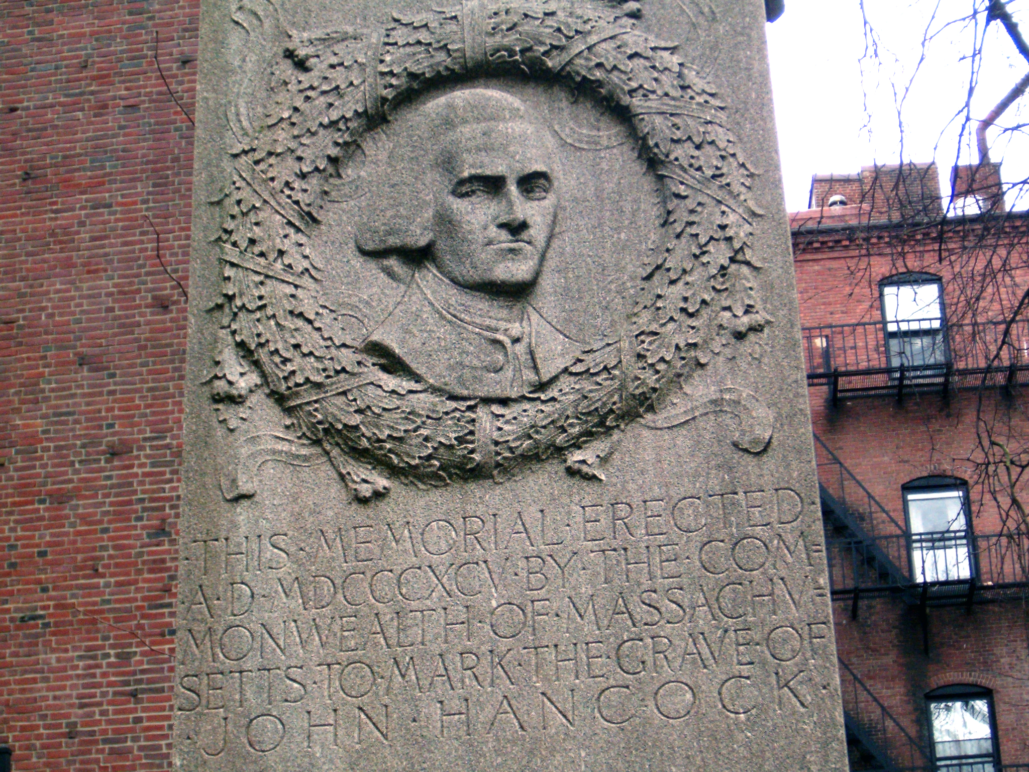 John Hancock's Tombstone in Boston